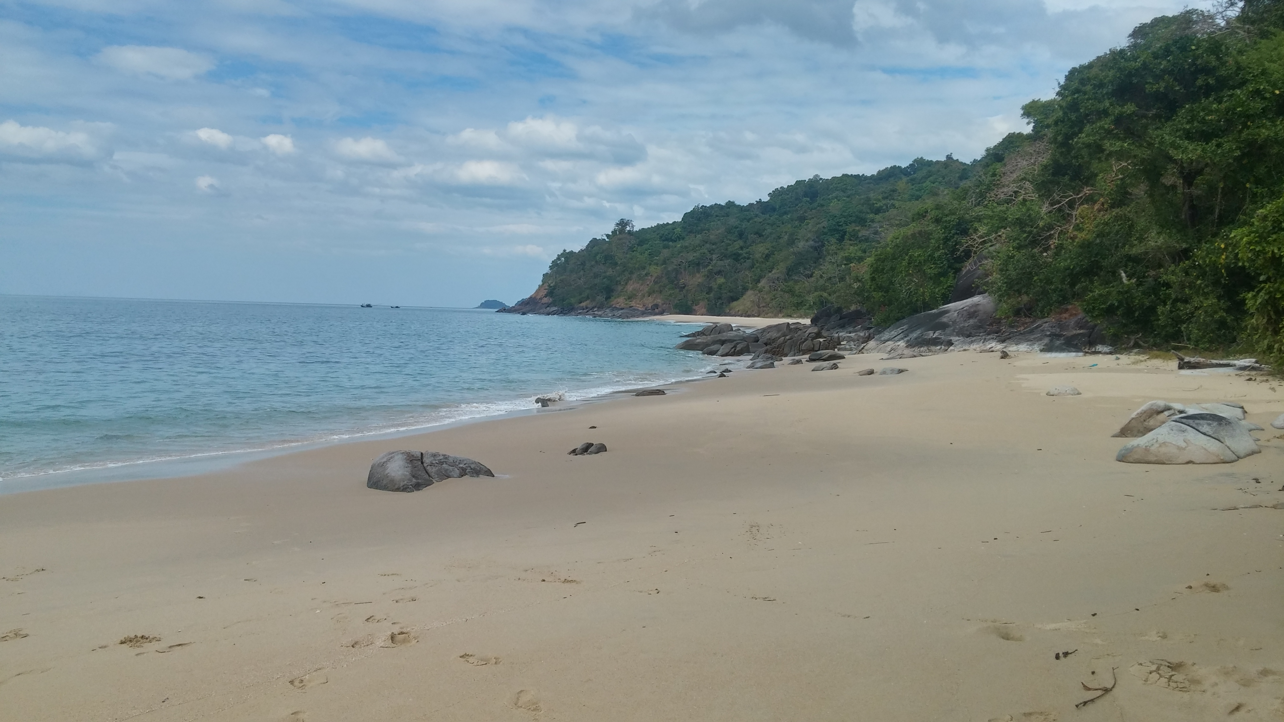 This beach is right north of Teyzit beach. Completely undeveloped as of December 2016